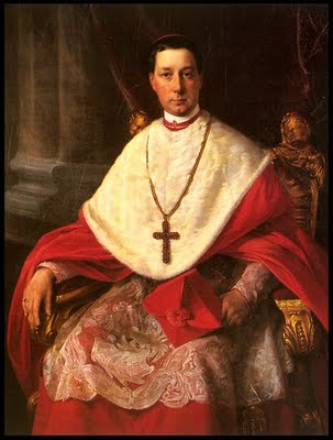 Portrait of Friedrich Johannes Jacob Celestin von Schwarzenberg (1809-1885)